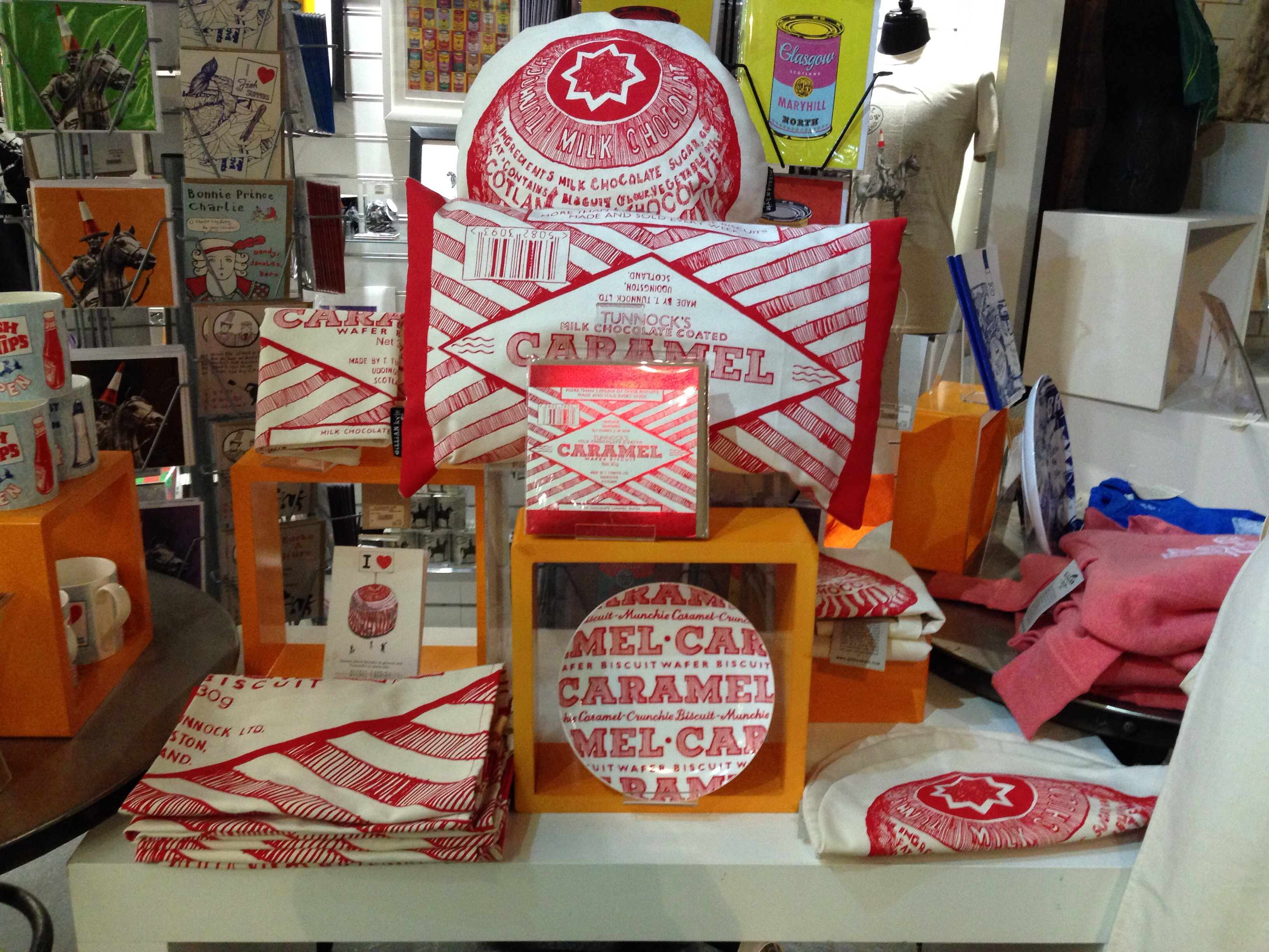 A selection of delicious Tunnock's merchandise on sale at Glasgow's Lighthouse.